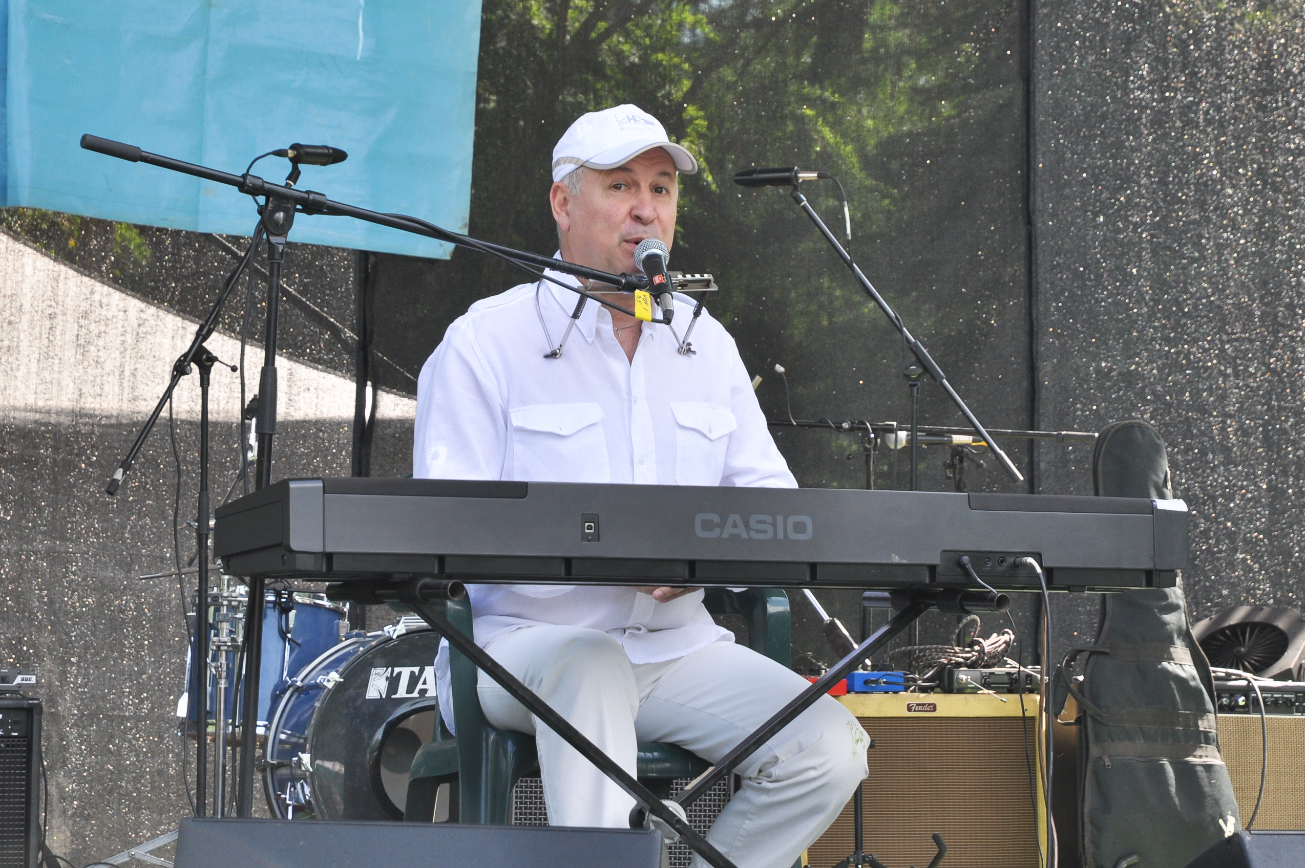 Vladimir Totev better known as Valdi Totev, member of the Bulgarian rock band Shturtzite, solo appearance during the festival "Flower for Gosho 2011" at South Park, Sofia.